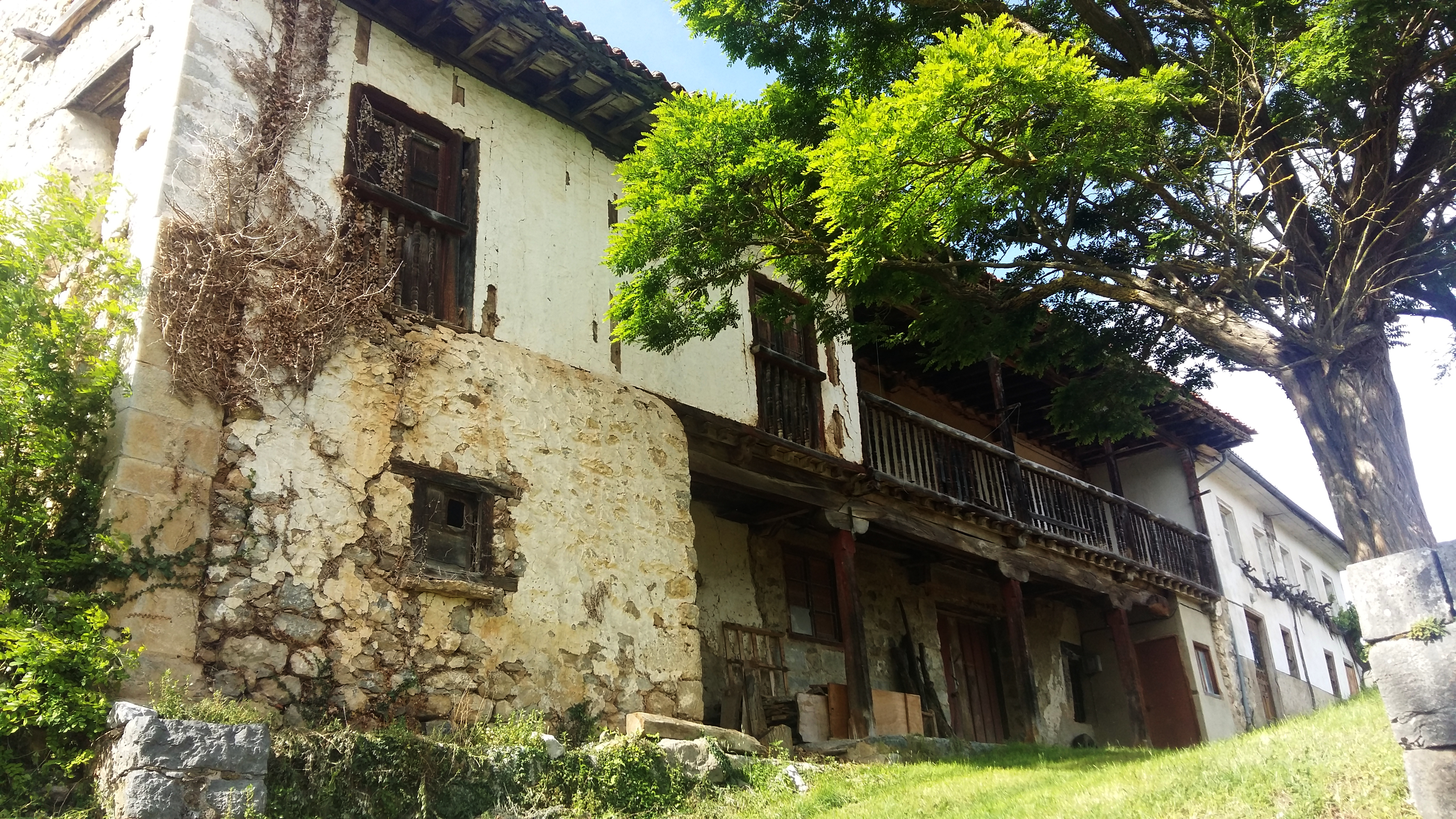 Old building of the Academy of Cavalry of Colio (Cantabria, Spain), created during War of the Spanish Independence in 1811.